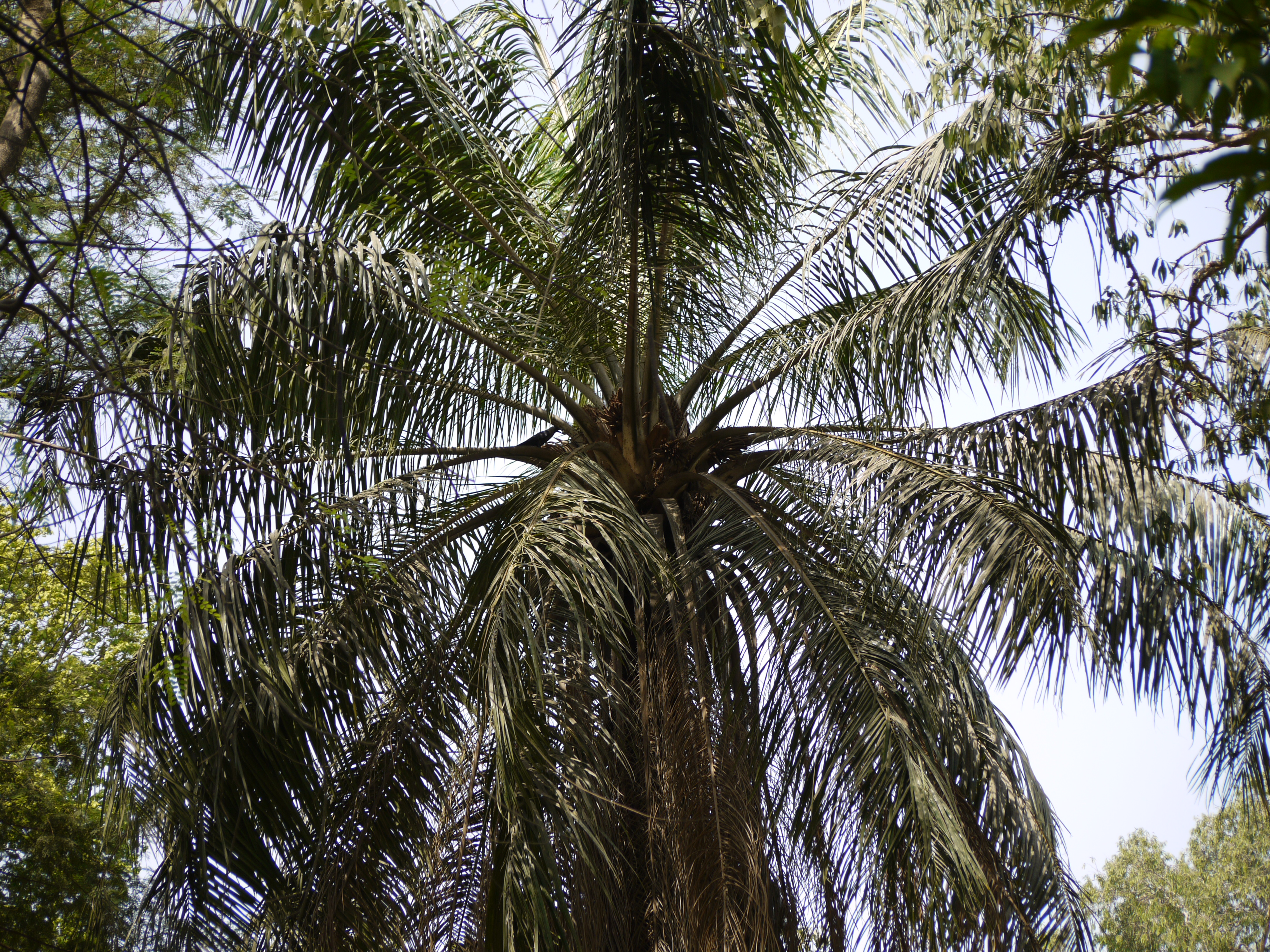 Arecaceae (palm family) » Elaeis guineensis el-LEE-iss -- from the Greek elaia (olive); refers to the olives / olive oil used commercially gin-ee-EN-sis -- of or from Guinea, West Africa commonly known as: African oil palm, macaw fat • Arabic: nakhlet ez zayt • Burmese: si htan, si ohn •